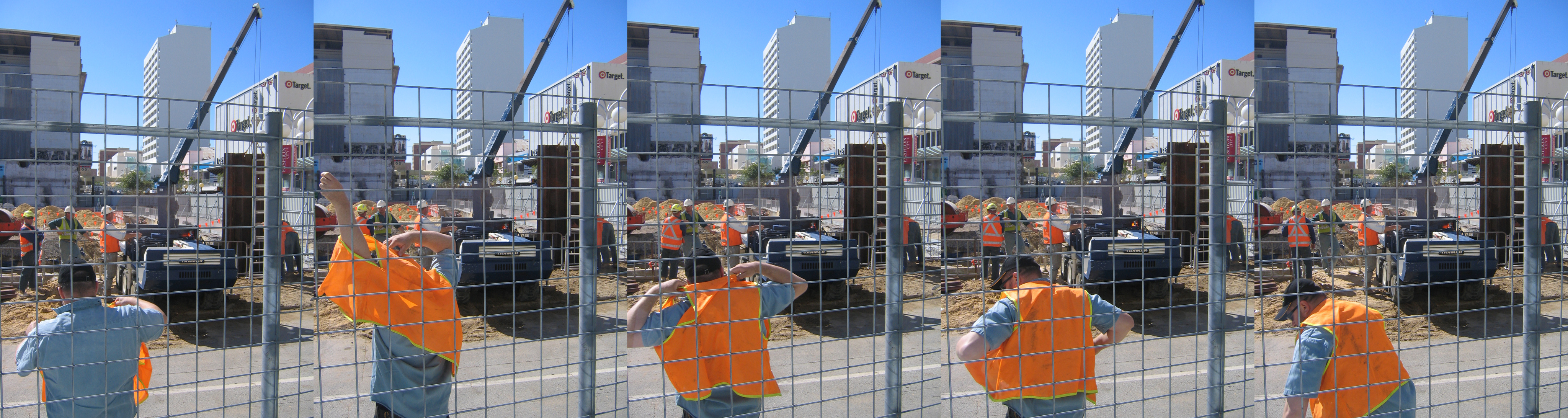 Workman donning a high-visibility vest, William Street construction site, Perth, Western Australia.